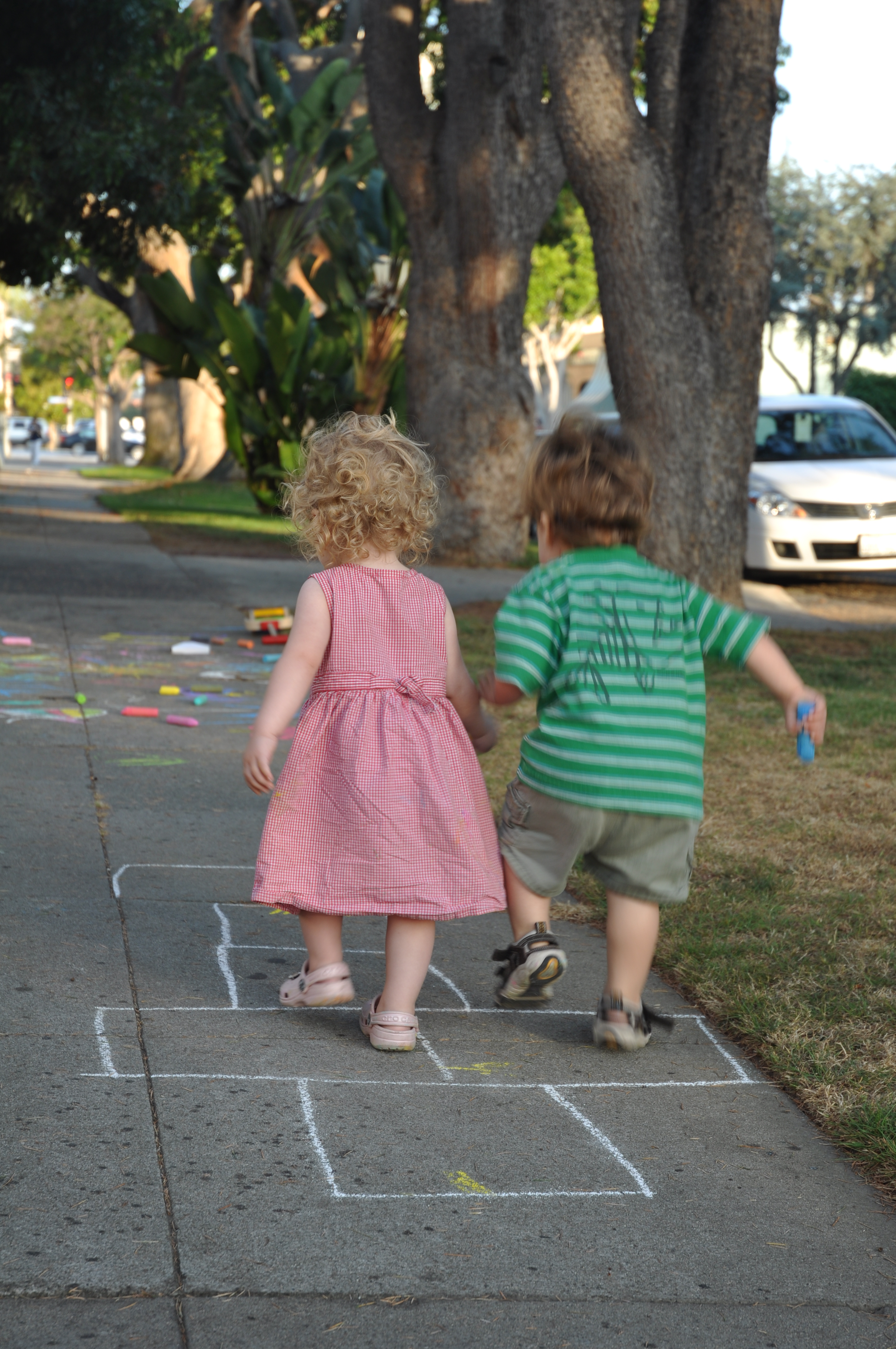 Little boy and girl playing hopscotch together.